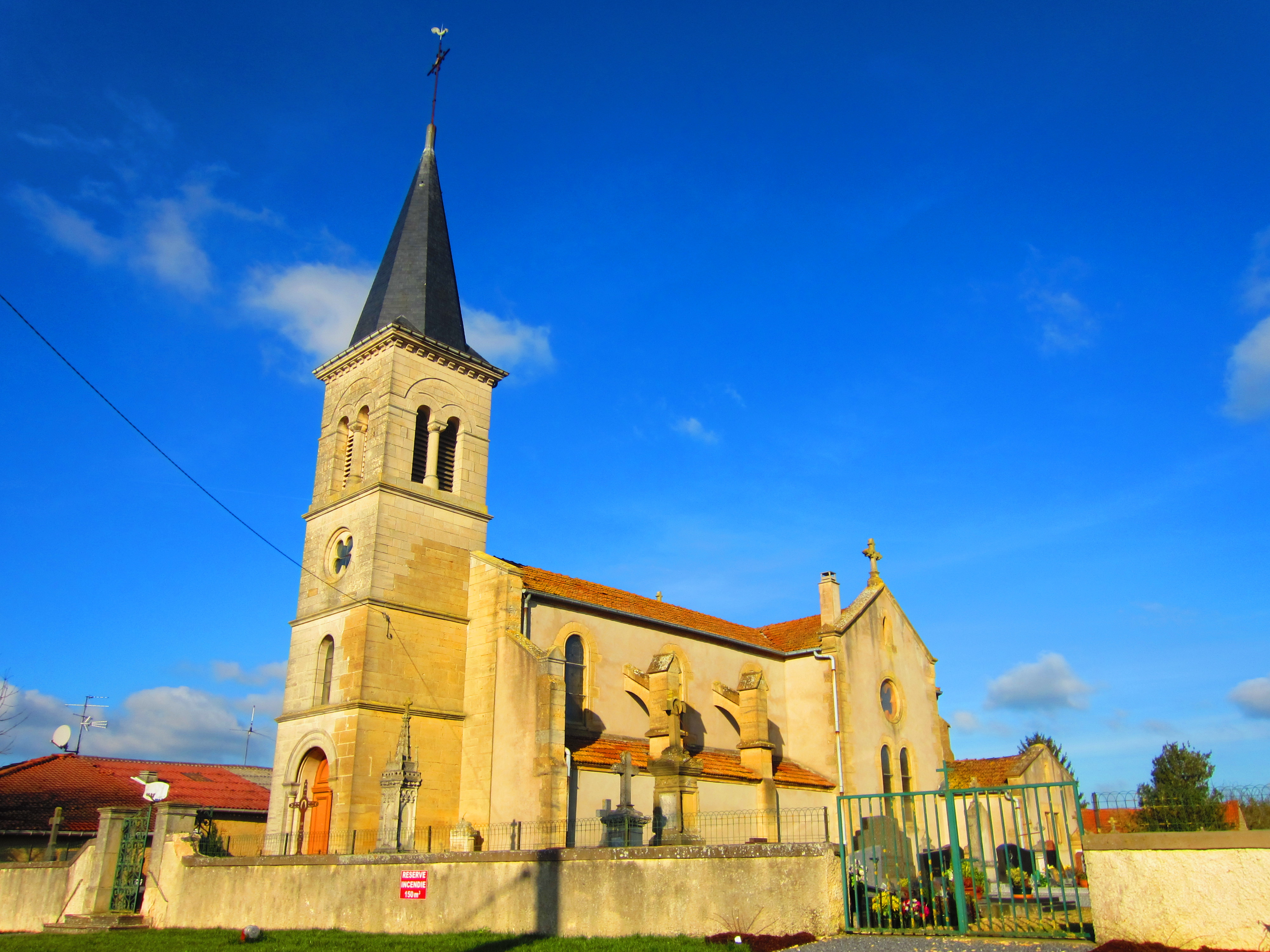 Boinville Woevre church